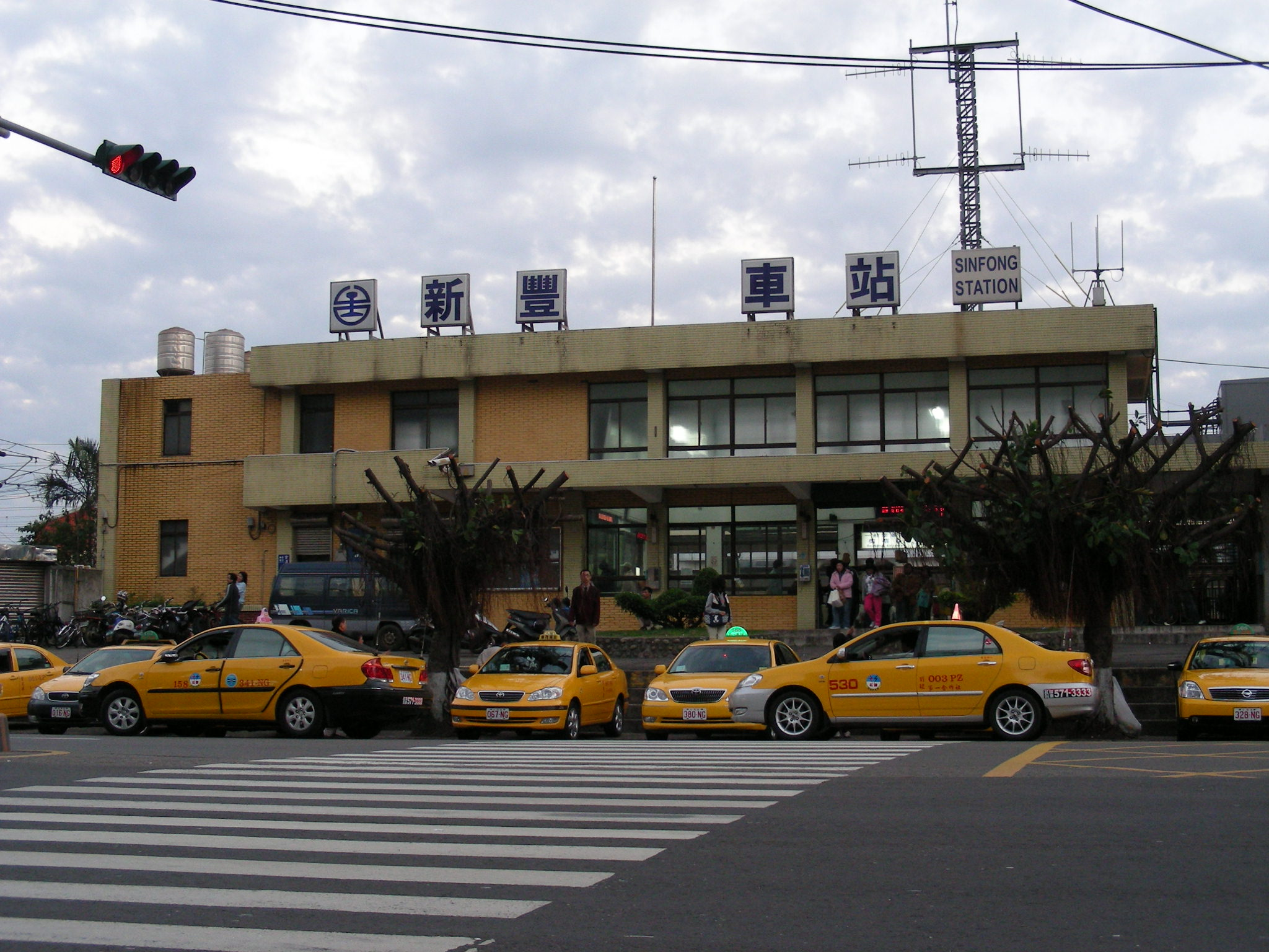 Taiwan "Sin Fong" Railway Station.